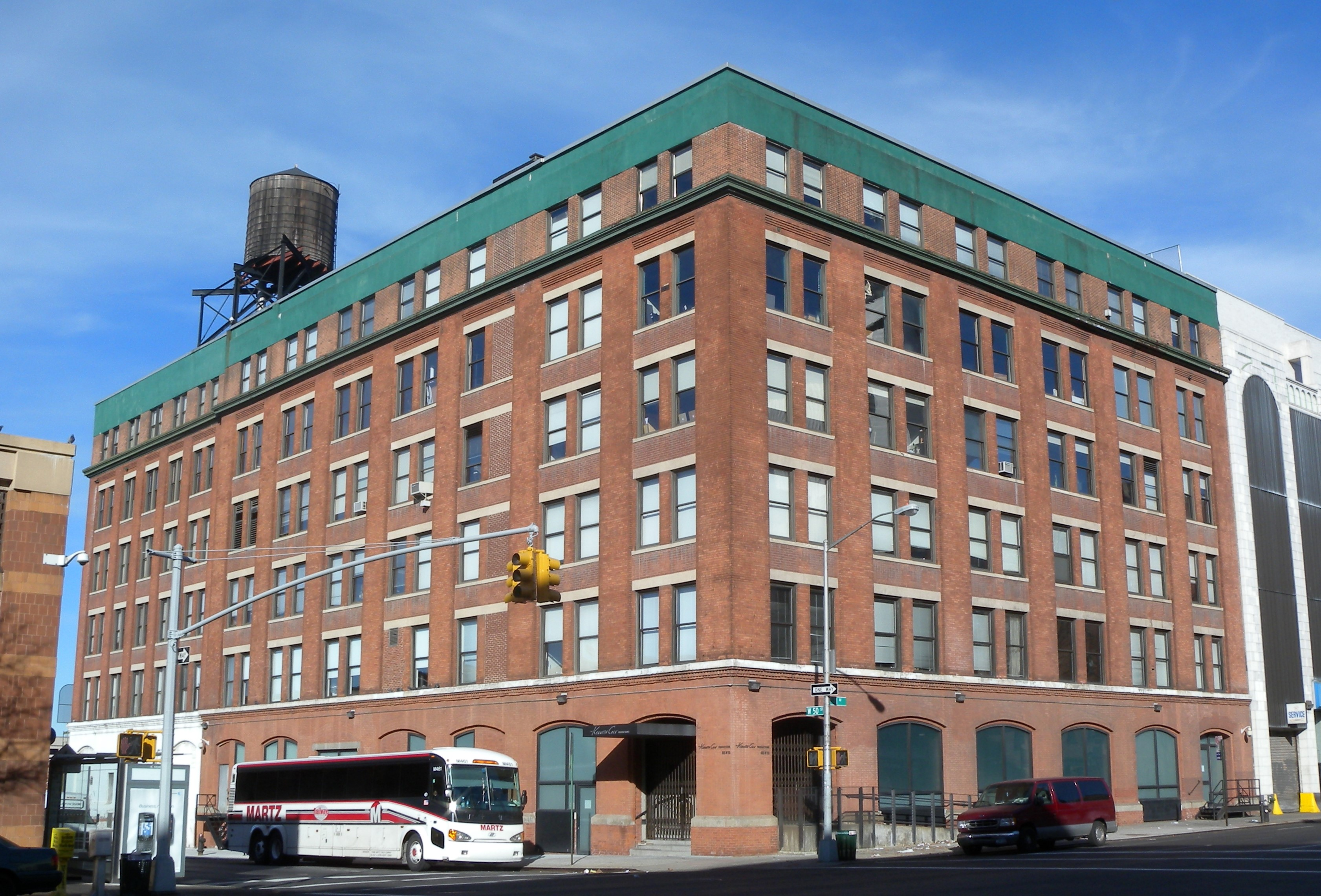 Looking north across 11th Ave and 50th St at KC headquarters on a sunny late morning.